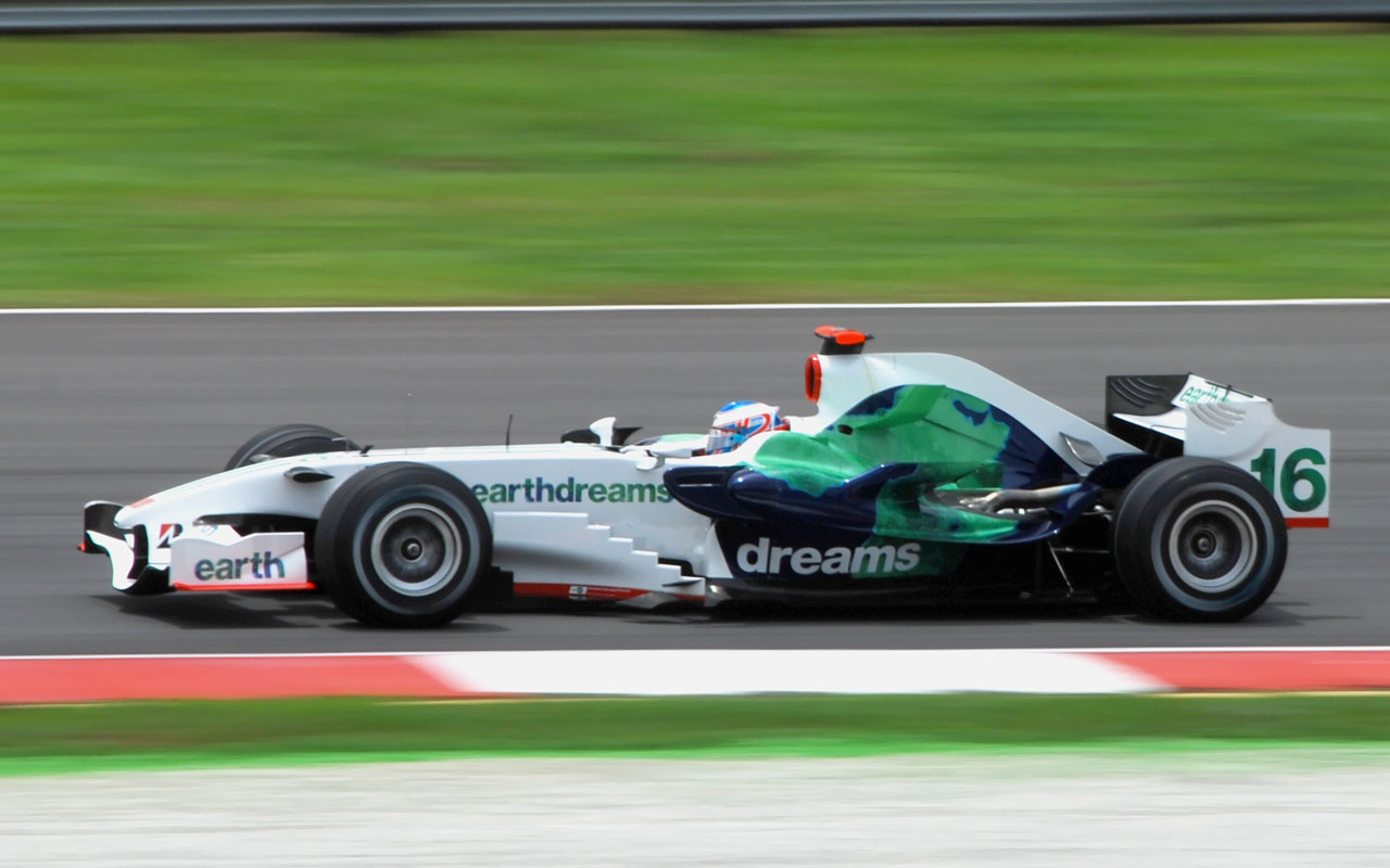 Jenson Button driving for Honda F1 at the 2008 Malaysian Grand Prix.